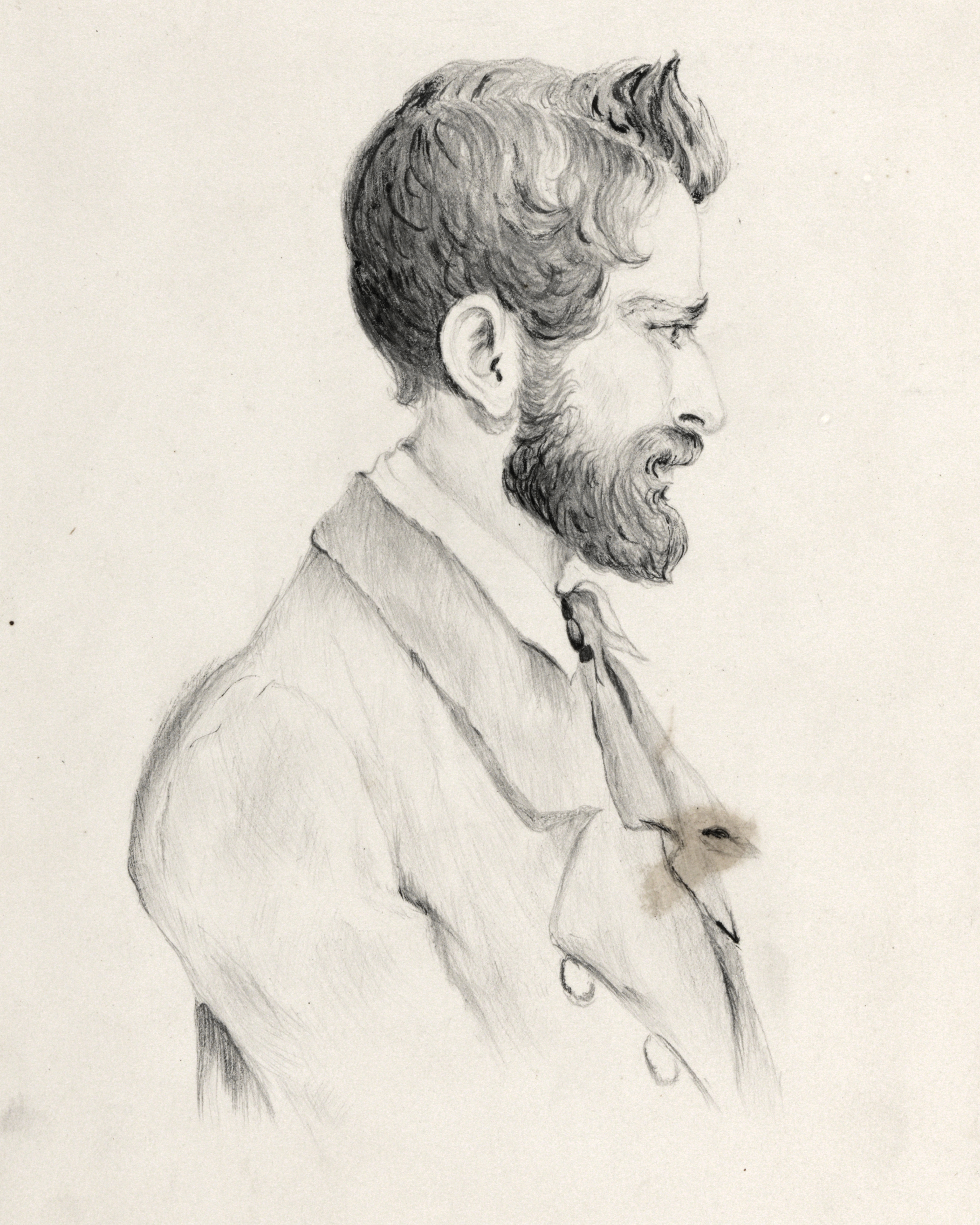 Ludwig Leichhardt, 28 May 1846, Isobel Fox, pencil, State Library of New South Wales DG P1/4